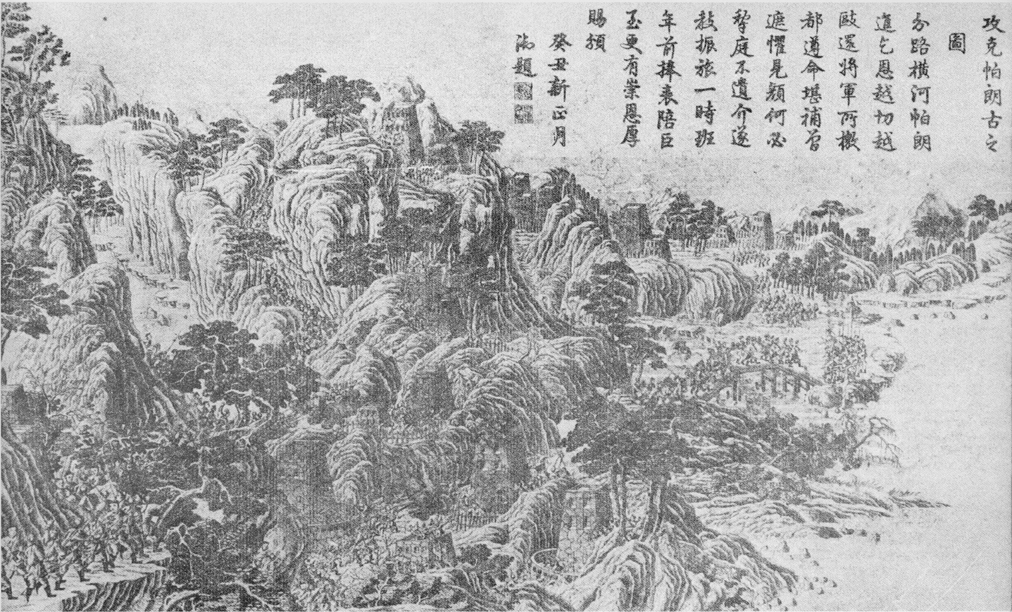 A scene of the Gurkha (Nepal) Campaign 1791 - 1792